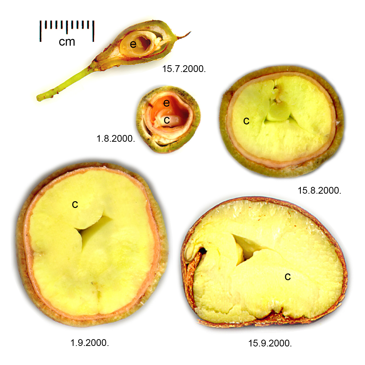 Aesculus parviflora seed